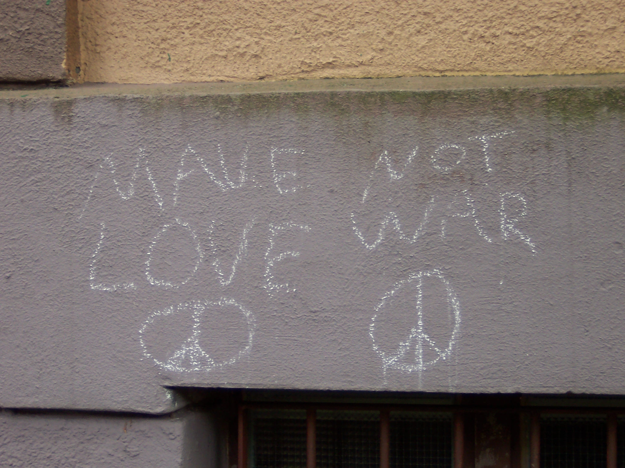 Peace Symbol at a school in Germany.